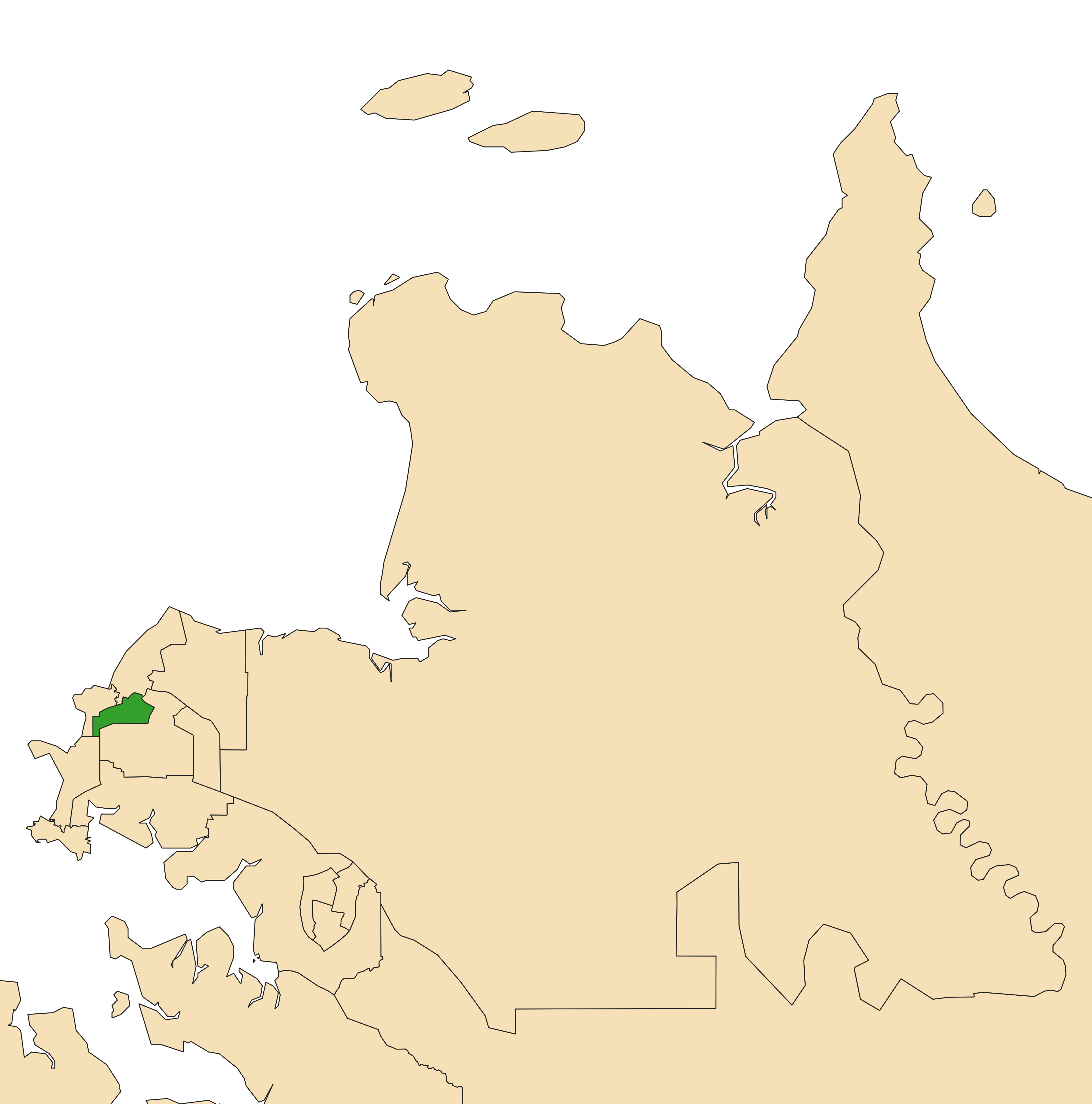 Location of the electoral division of Johnston (dark green) in the Darwin/Palmerston area of the Northern Territory at the 2020 Northern Territory election